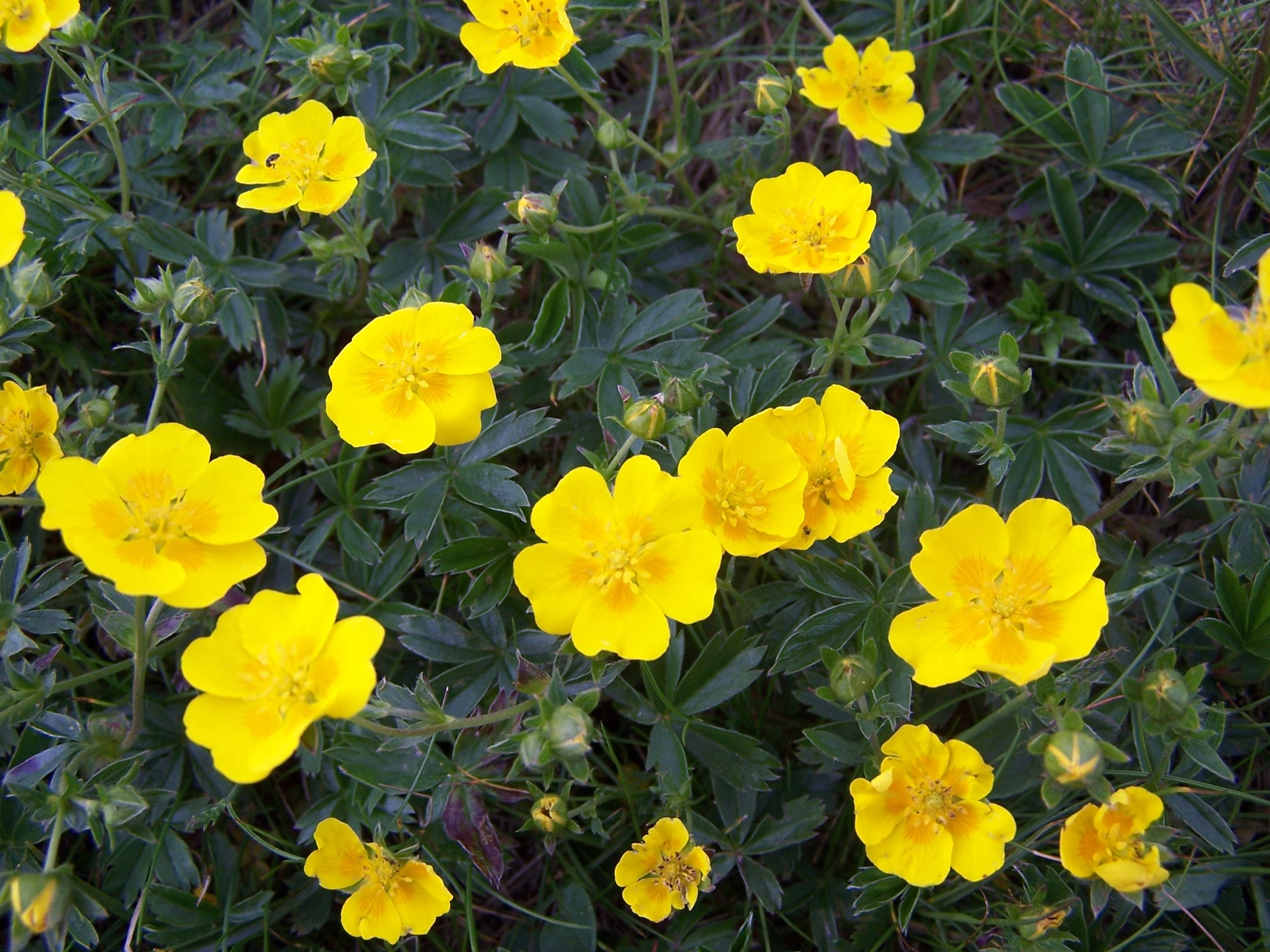 Potentilla aurea (pl. pięciornik złoty), habitat: Spalona Dolina, West Tatra Mountains